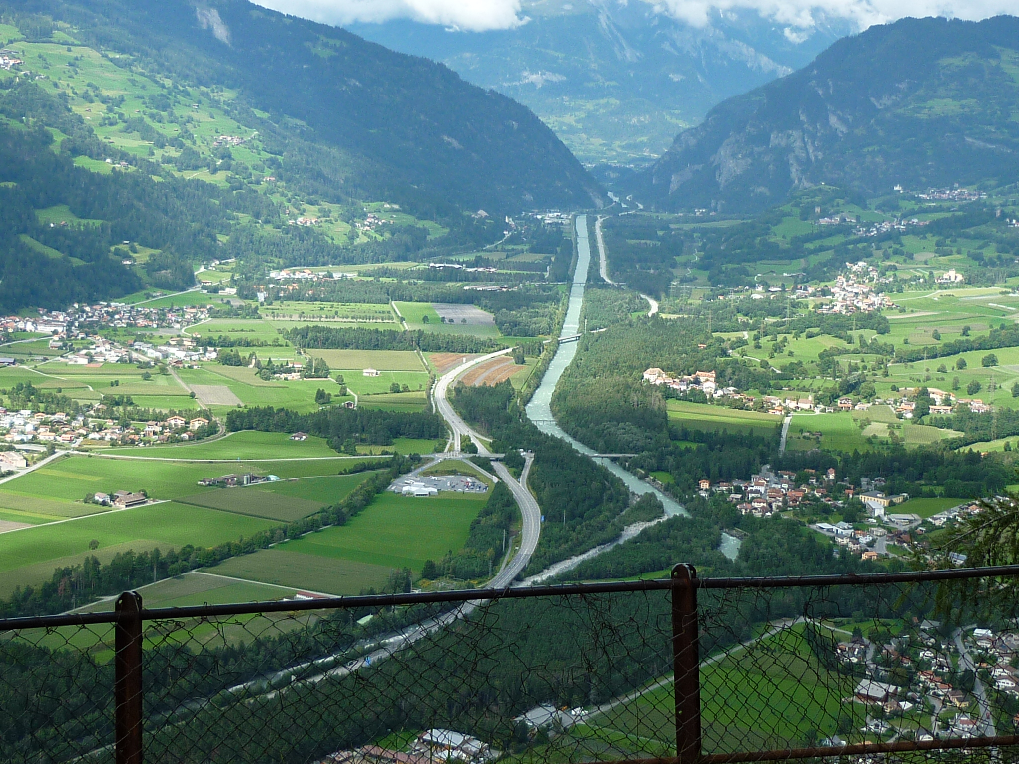 Domleschg valley GR, Switzerland. View from Crap Carschenna near Thusis.